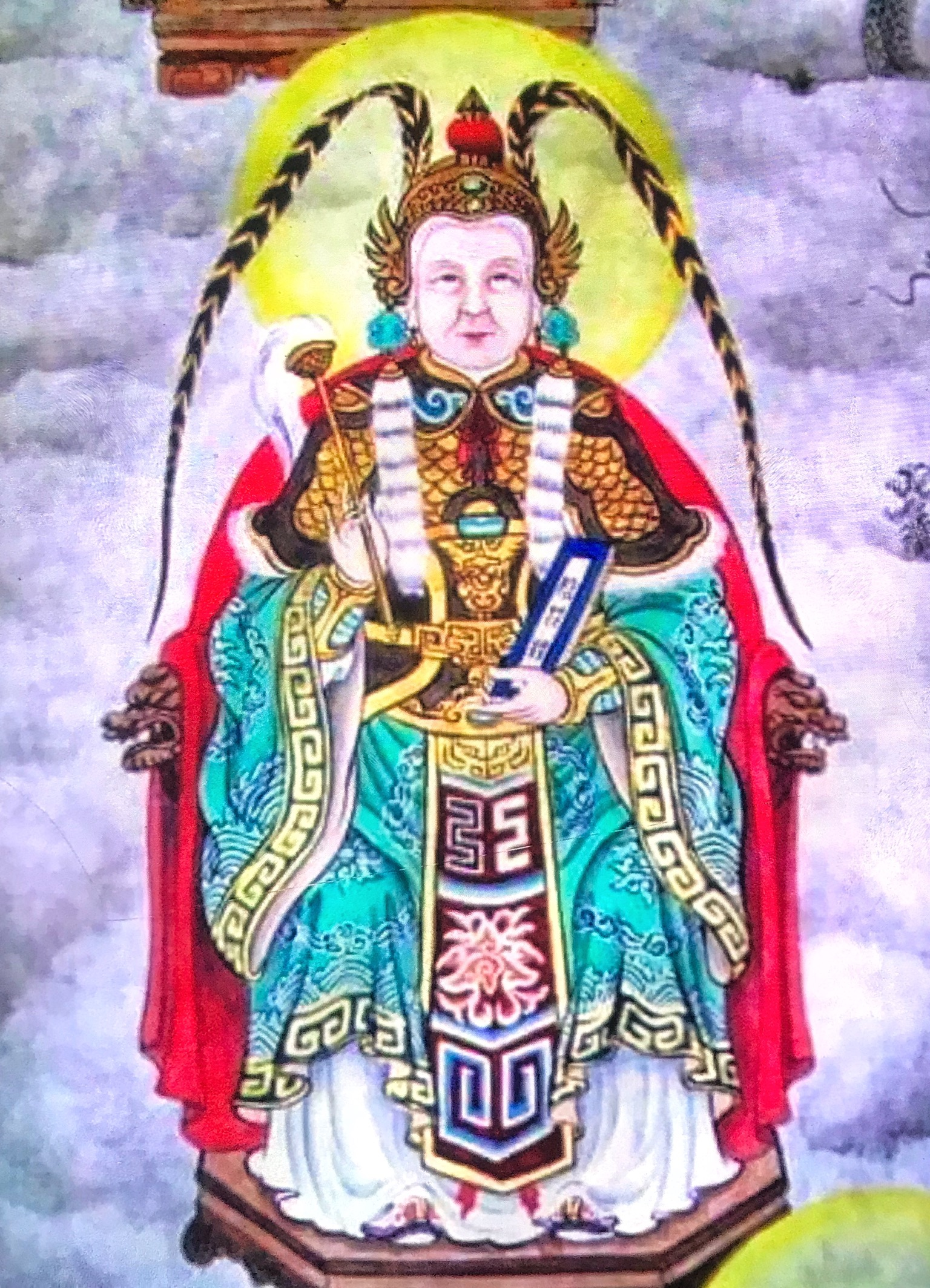 Lishan mother's wall painting in the Hualien Lishan Ciyun Palace (花蓮驪山 慈雲宮).